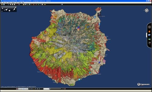 Another capaware screenshot